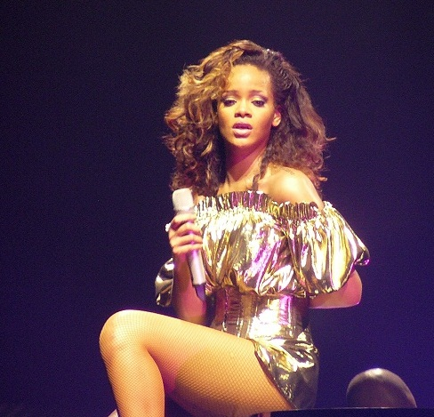 Rihanna live in Belfast, on her tour The LOUD Tour.